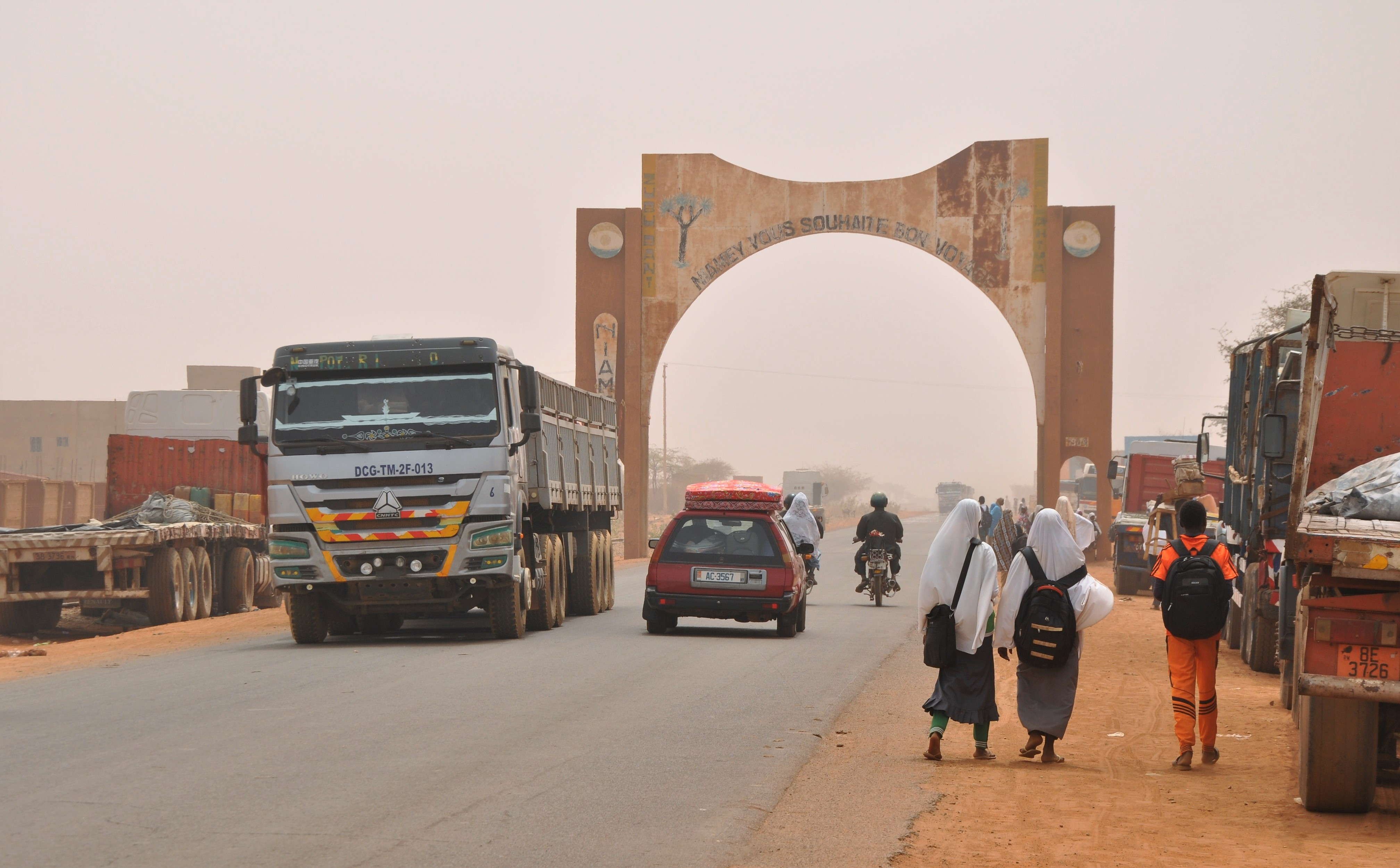 Exit gate from Niamey over de National Road (Route Nationale) No.1 in Niger. The text on the gate reads "Niamey vous souhaite bon voyage".